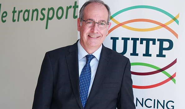 Pere Calvet Todera - UITP President since May 2017